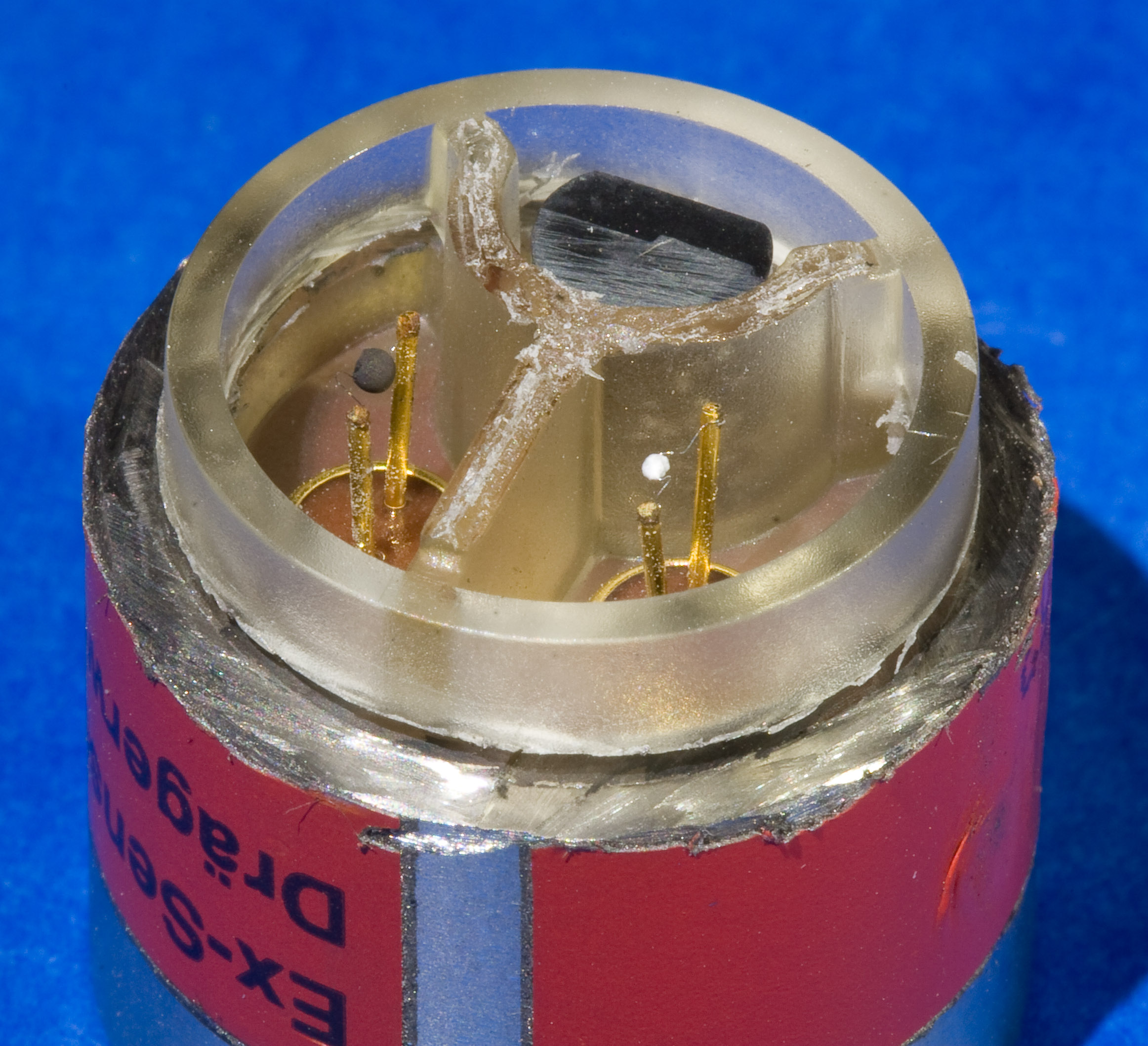 Opened sensor unit of a Explosimeter showing the measurement chamber (using the heat-of-reaction principle for measuring)